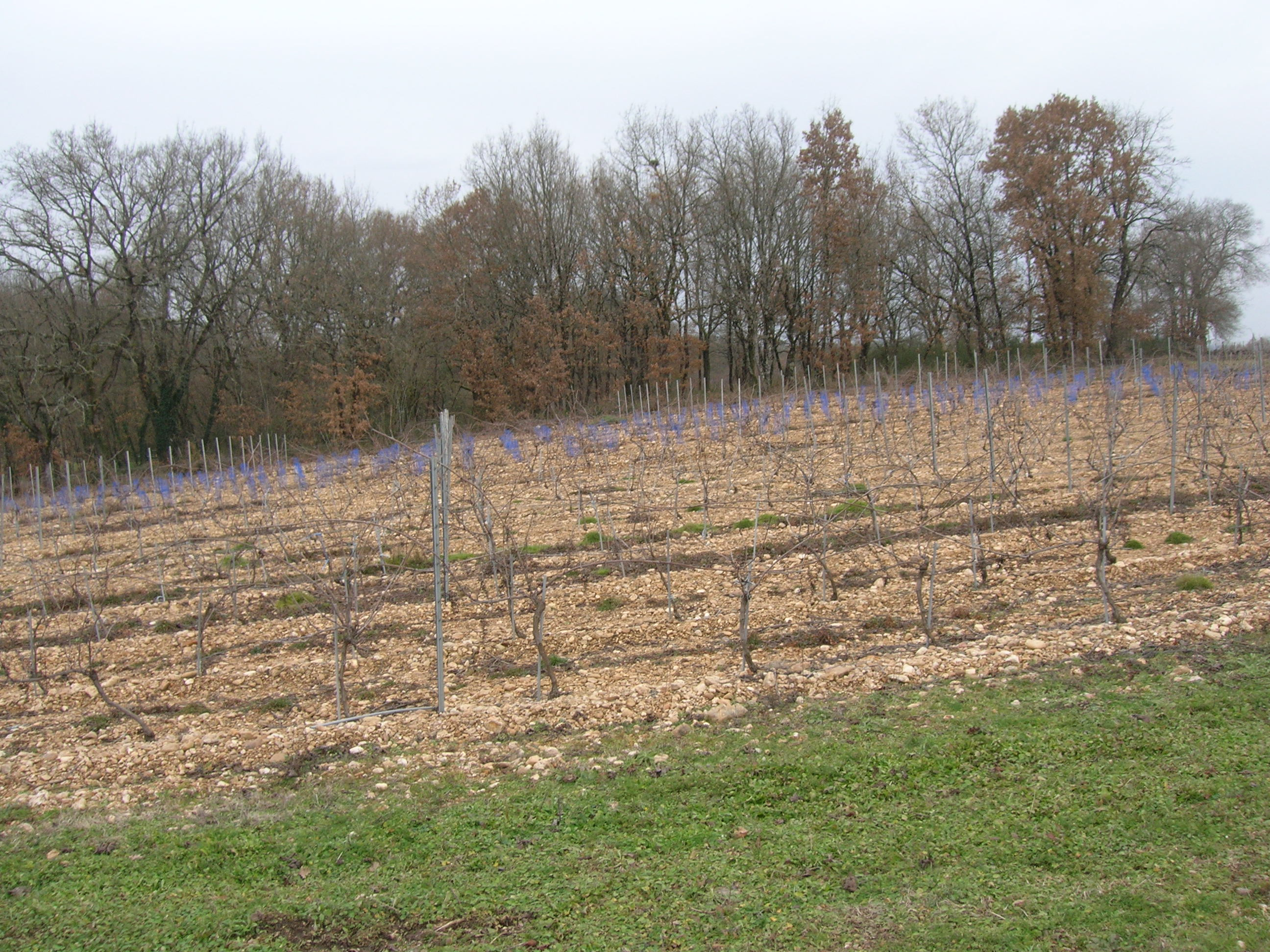 Soil of second fluvial terrace of Tarn. Young grape.